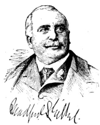 Image of Bradford Lee Gilbert, American Architect (1853-1911)